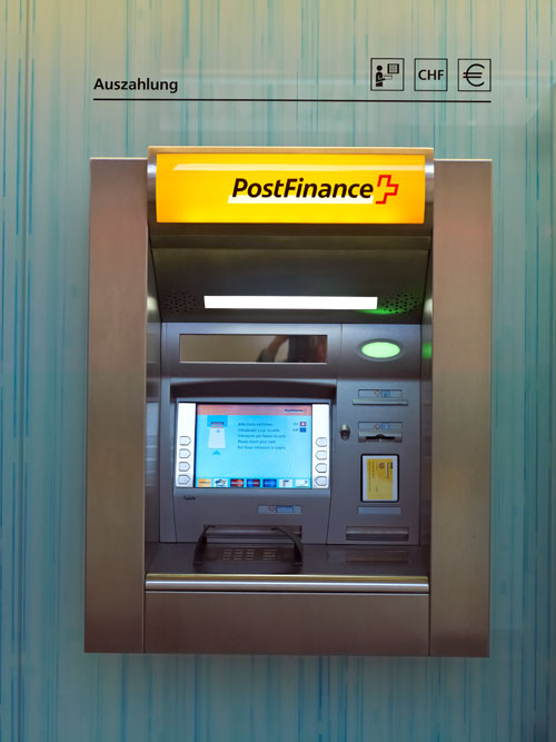 Picture of a "postomat" (a PostFinance Ltd ATM machine), taken at the PostFinance branche Bärenplatz in Berne BE, Switzerland.